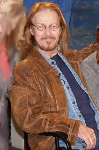 Singer-performer Ted Neeley is best known for his portrayal of Jesus in the rock musical "Jesus Christ, Superstar."